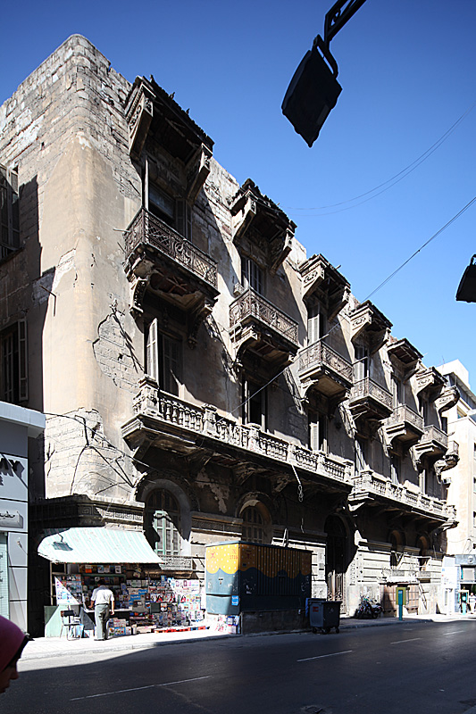 Building in the Nabi Danial St, Alexandria, Egypt